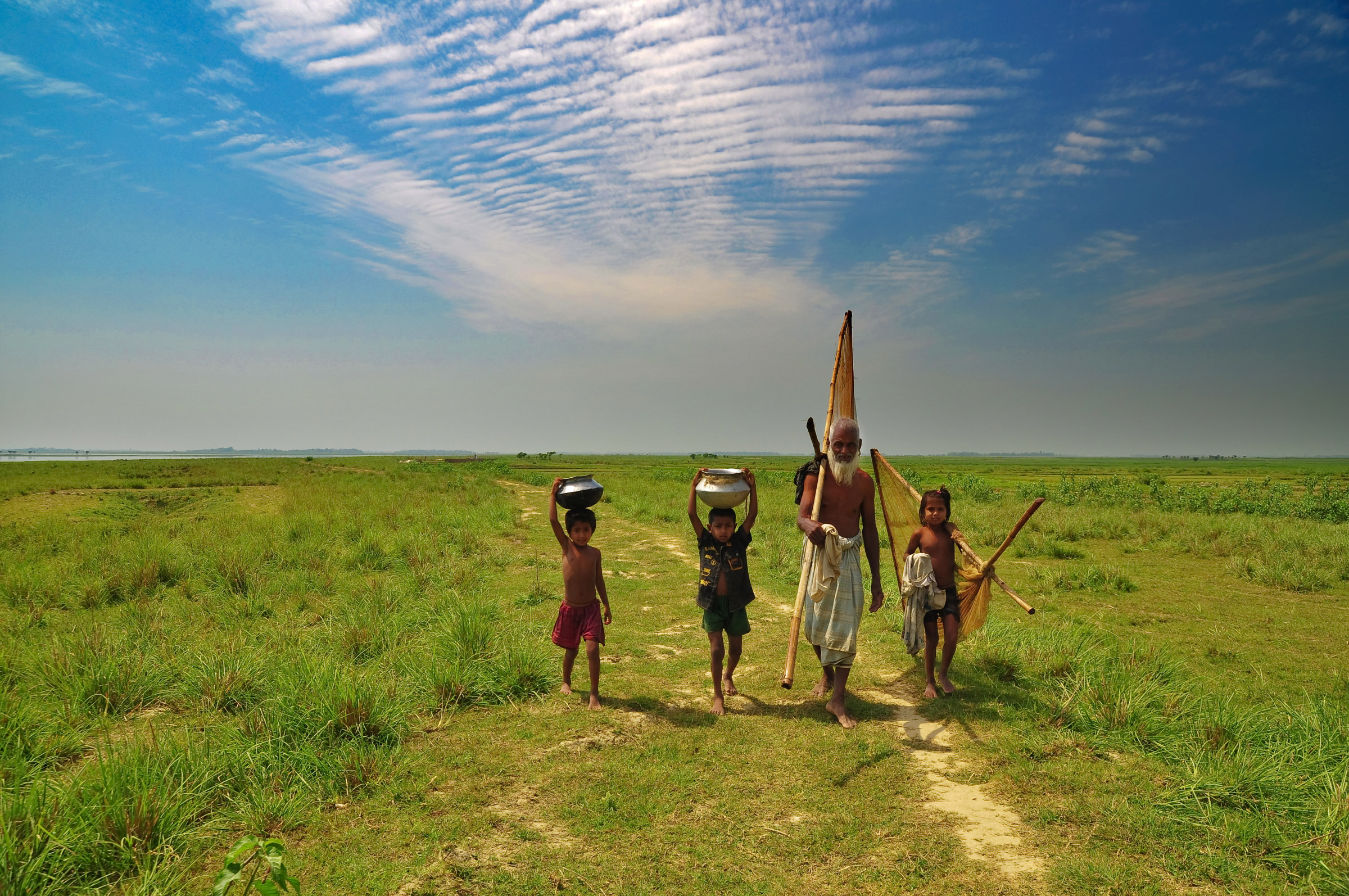 Fishing is one of the major livelihoods of haor people.